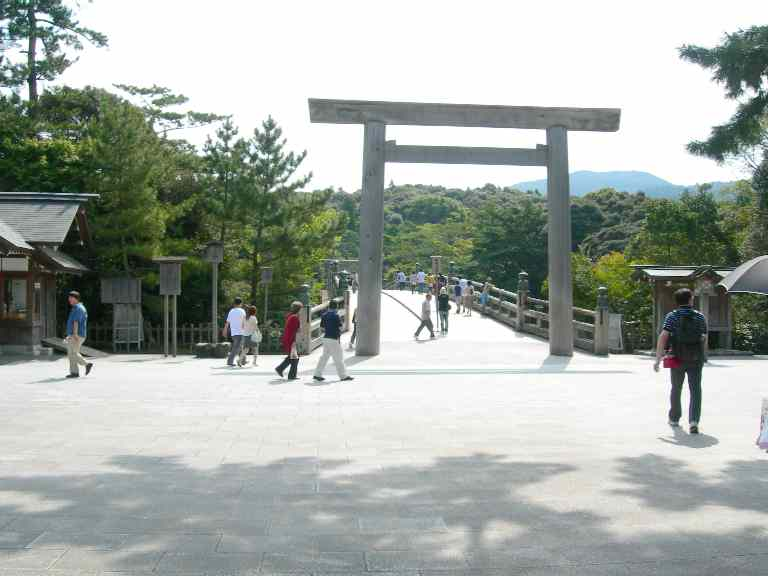 The Uji-bashi, the bridge in front of Kotaijingu(Naiku), Ise city Mie Prefecture Japan.